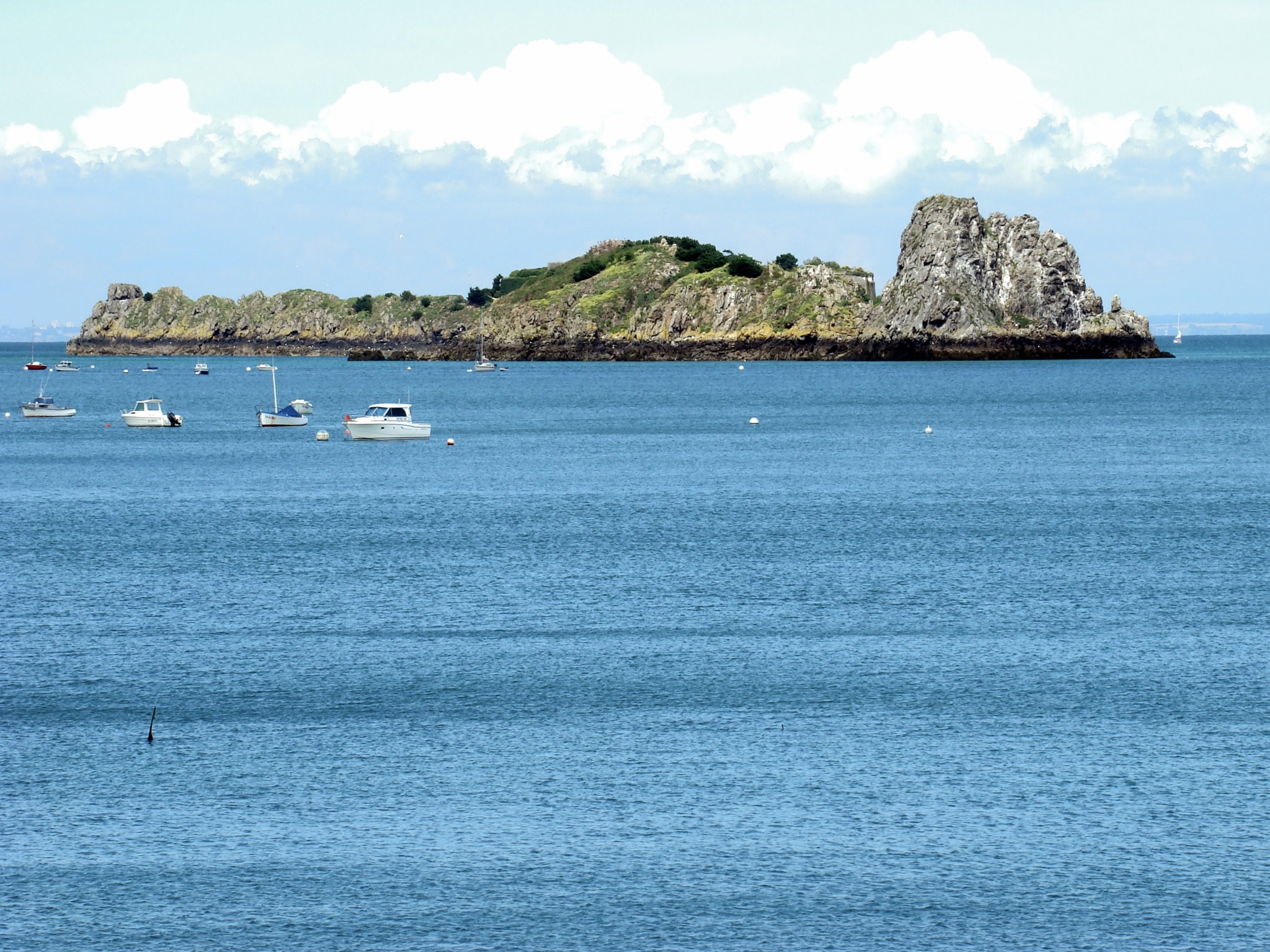 Ile des Rimains Cancale (Ille-et-Vilaine, France)